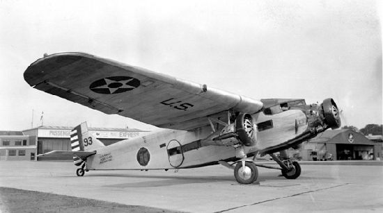 Ford C-4A Tri-Motor.